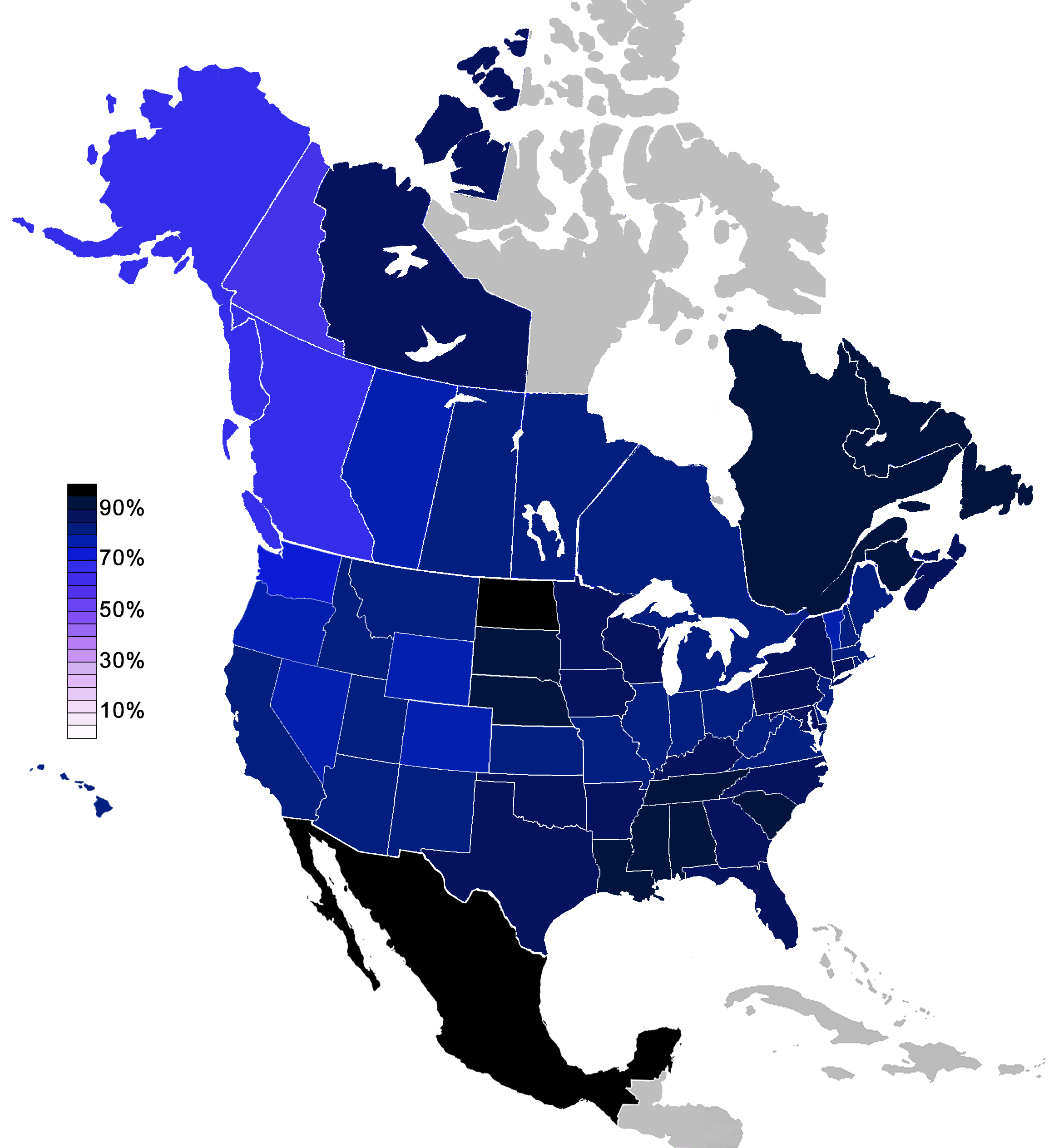 The percentage of people by state in the United States who identify with a religion as opposed to having "no religion" (2001).